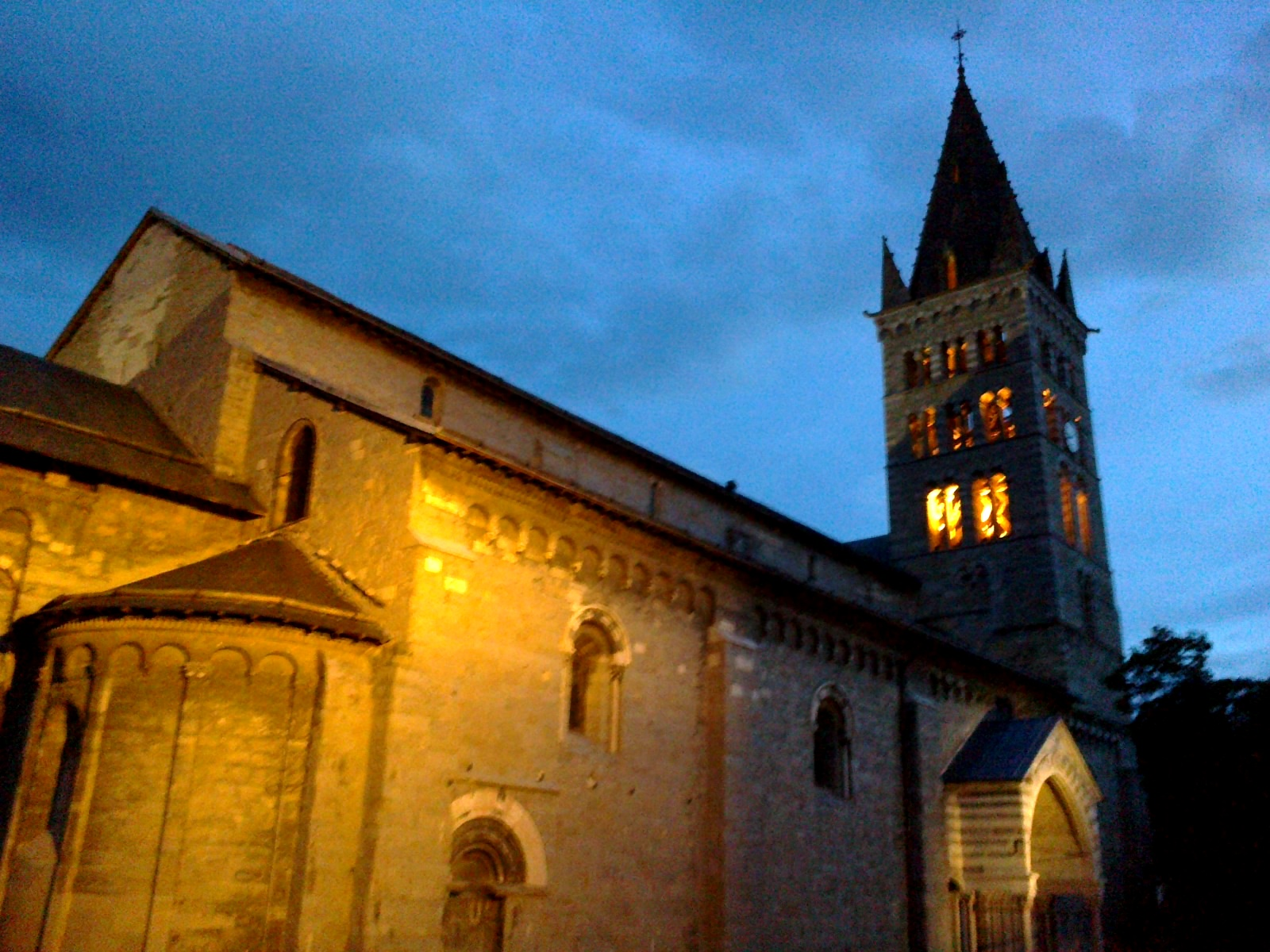 Hautes-Alpes Embrun Cathedrale Notre-Dame-Du-Real Cote Nord